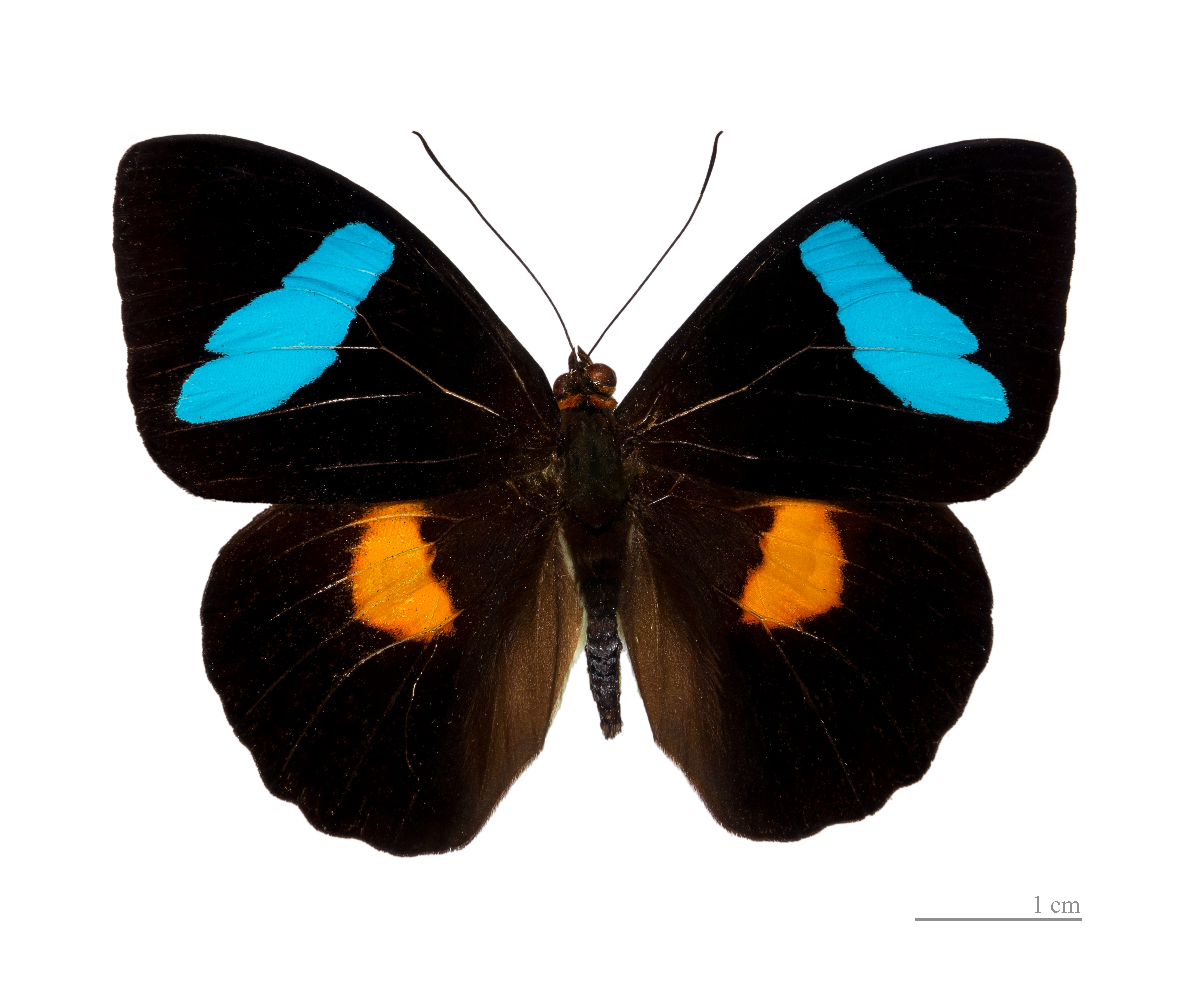 ♂ - Dorsal side Locality : Cacao, Crique Baguot, French Guiana.